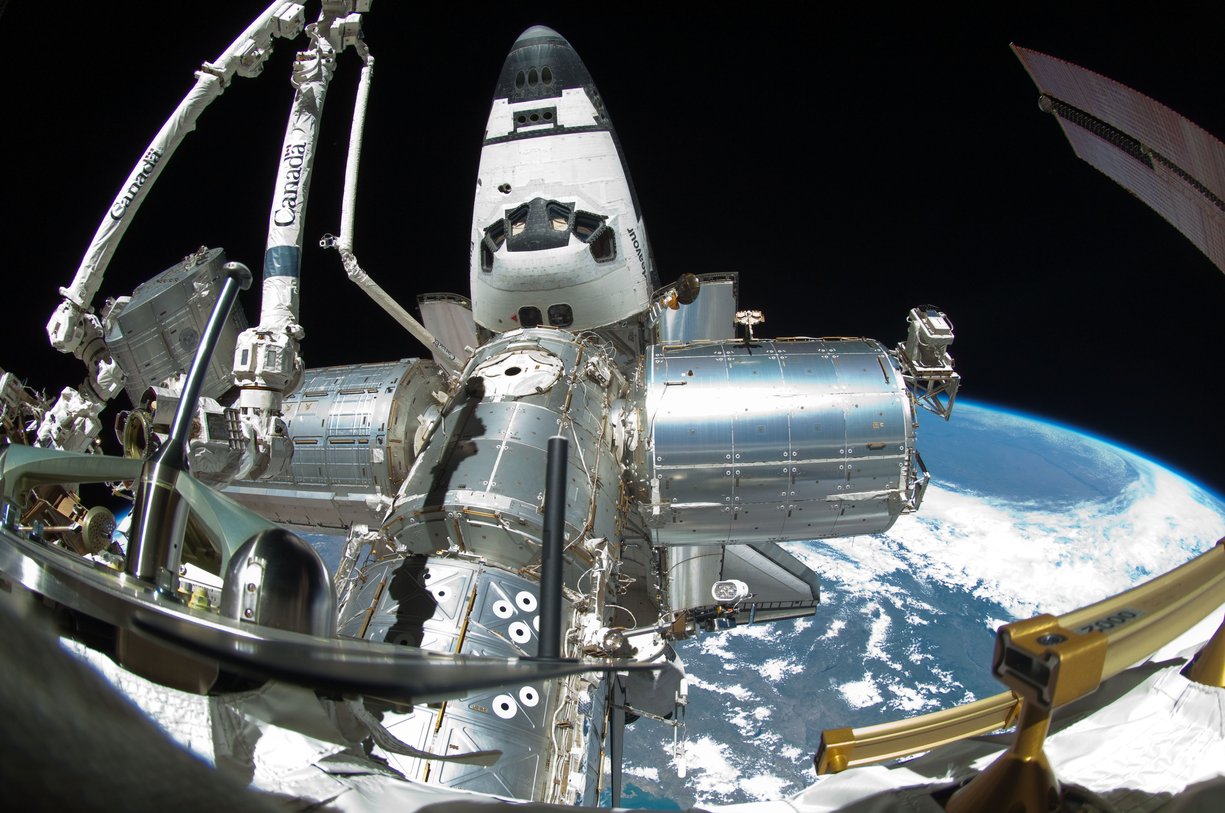 A portion of the International Space Station and the docked space shuttle Endeavour is featured in this image photographed by a spacewalker, using a fish-eye lens attached to an electronic still camera, during the STS-134 mission's fourth session of extravehicular activity (EVA). The blackness of space and Earth's horizon provide the backdrop for the scene. The image is taken looking forward, with Endeavour docked forward of the Harmony Module (also known as Node 2). To the left and right of Harmony are the Kibō and Columbus modules respectively. Aft of Harmony (at the base of the photograph) is the Destiny Module.